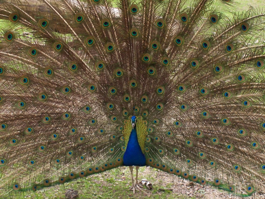 Pavo cristatus